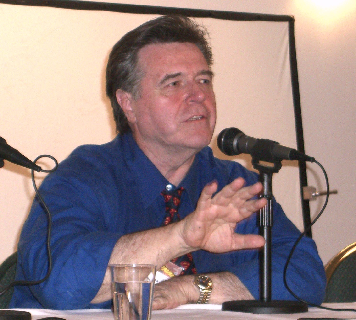 Comic book creator Neal Adams speaking on a panel at the November 2008 Big Apple Convention in Manhattan.